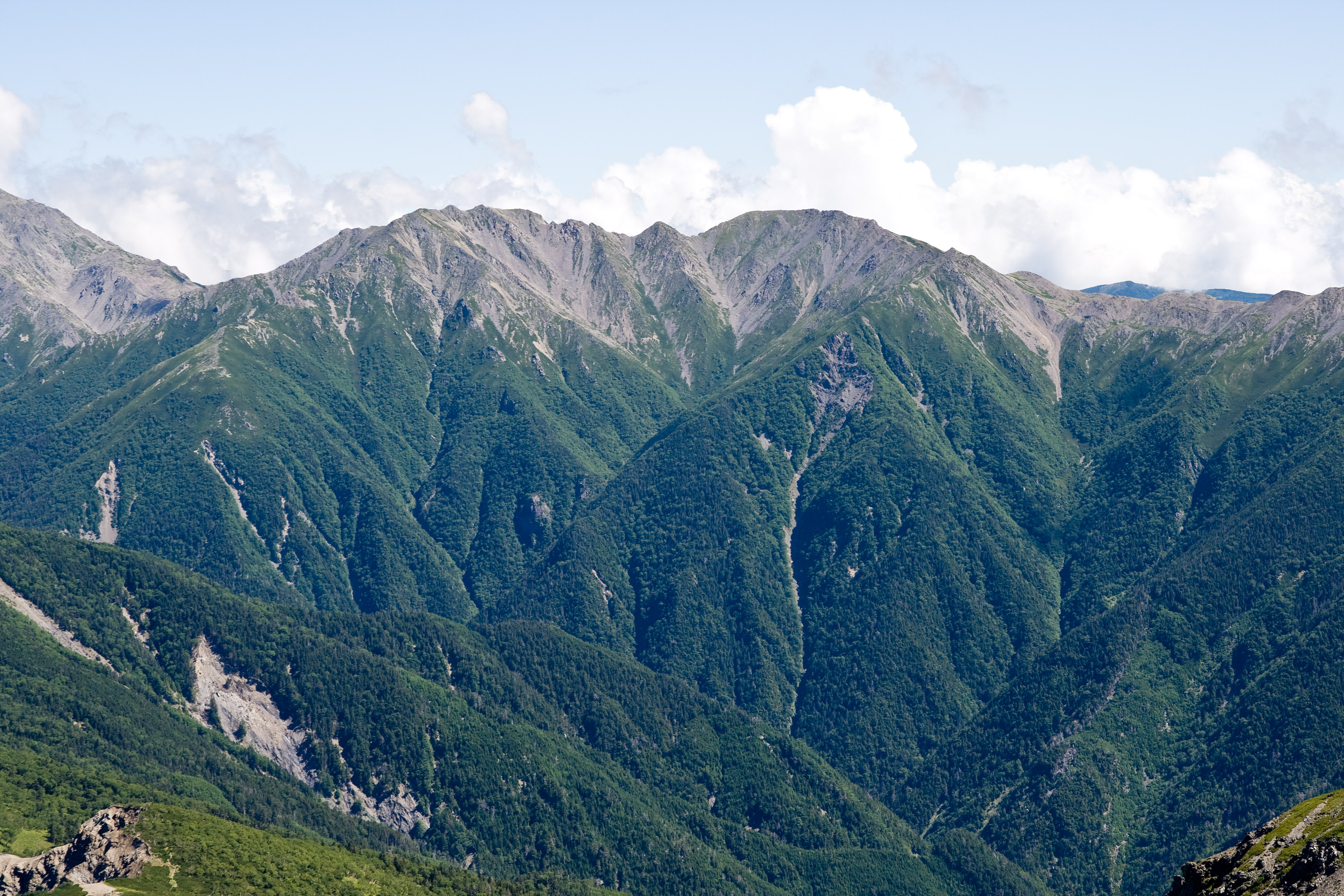 Mt.Notori (農鳥岳 のうとりだけ Noutori-dake) as seen from Mt.Shiomidake, Akaishi Mountains, Nagano and Shizuoka Prefectures, Honshu, Japan.